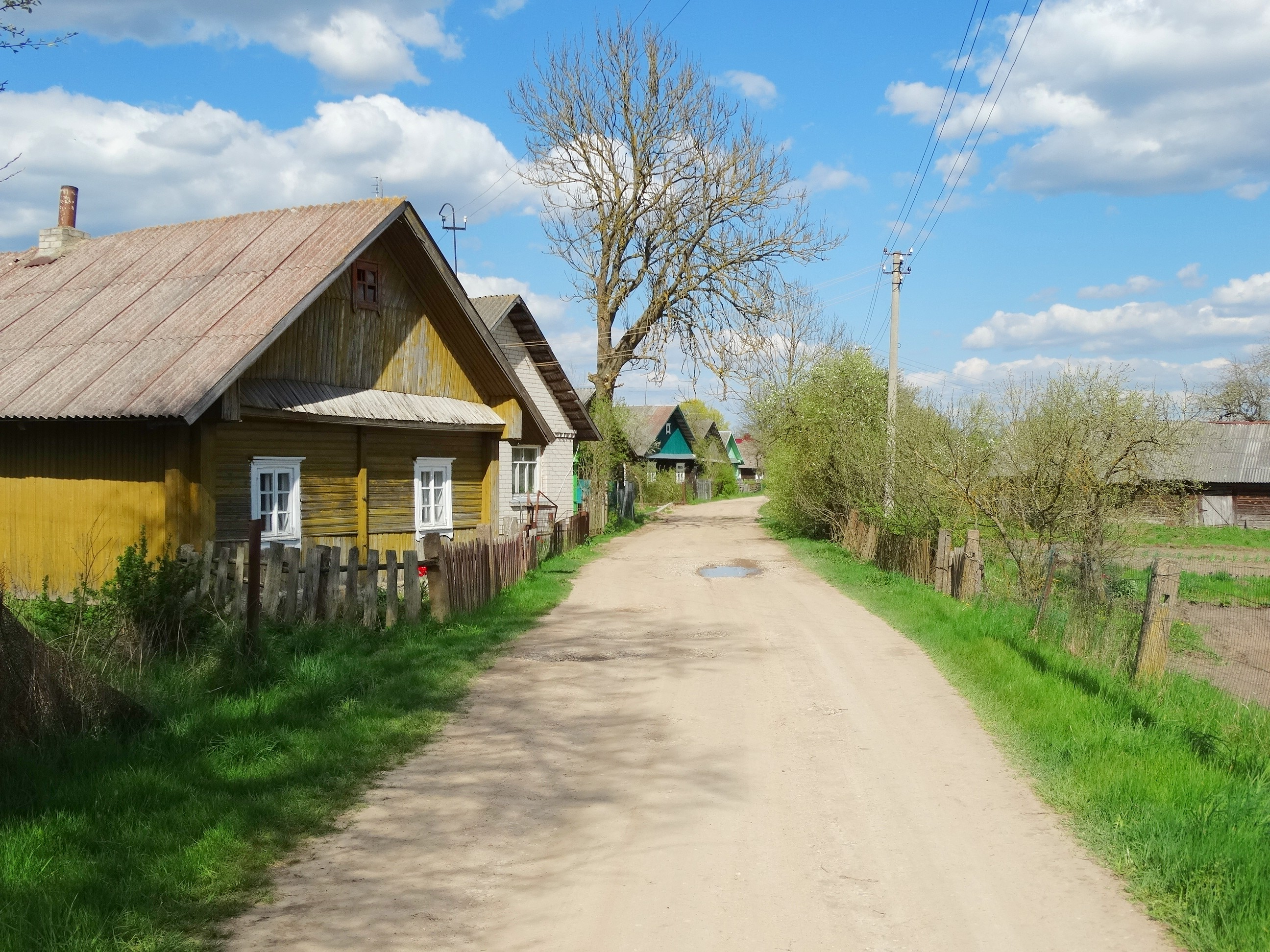 Žižmai, Šalčininkai District, Lithuania